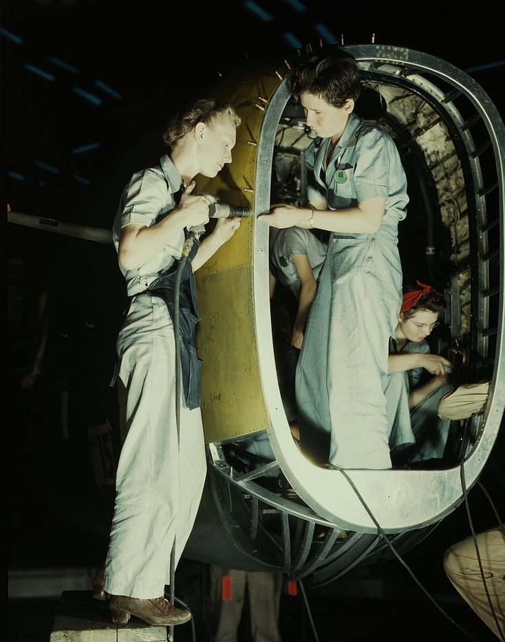 Title: Riveters at work on fuselage of Liberator Bomber, Consolidated Aircraft Corp., Fort Worth, Texas